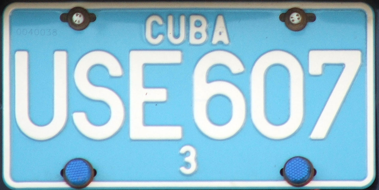 Cuban registration plate as seen in 2009.